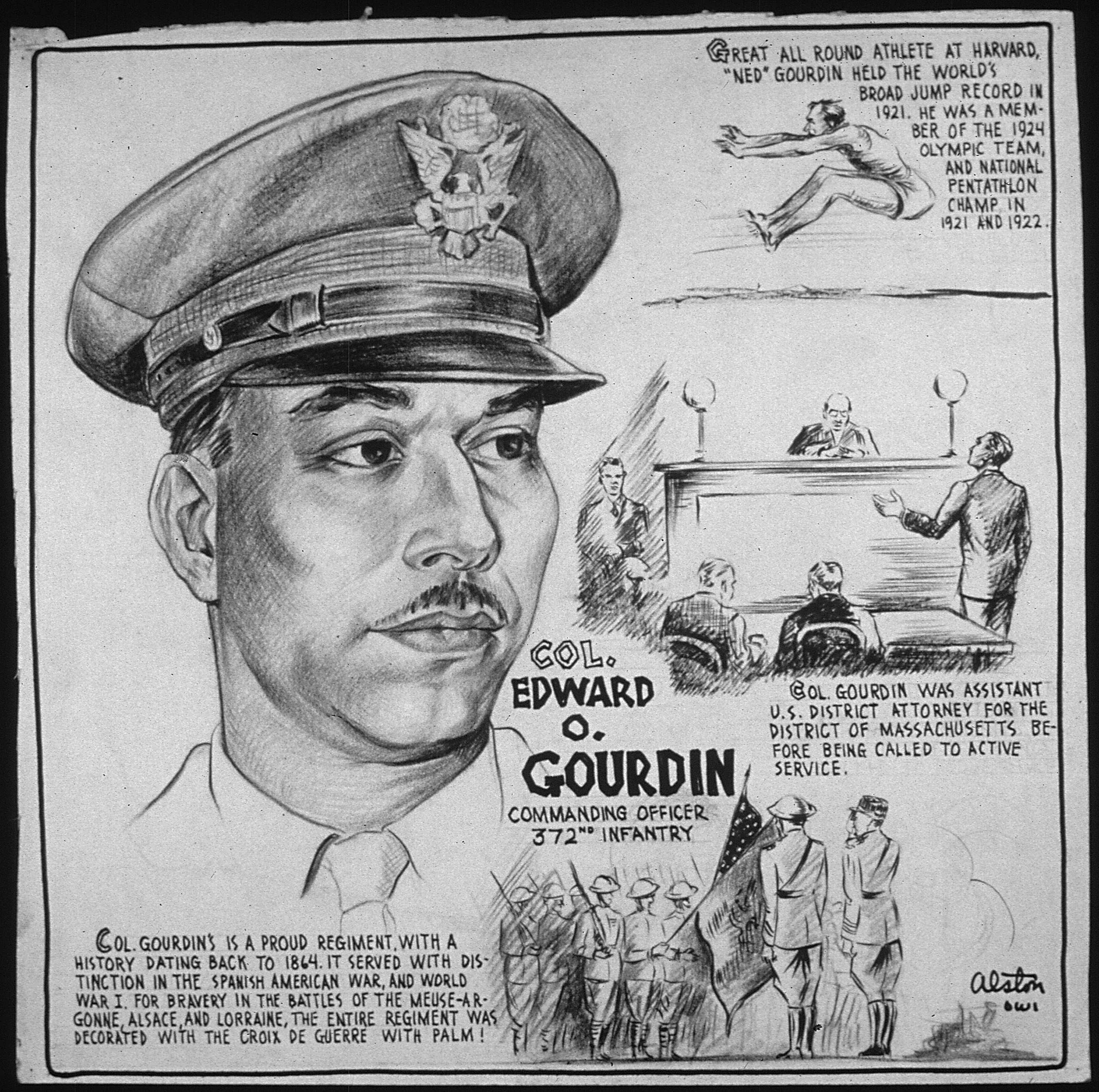 Scope and content: Colonel Edward O. Gourdin - with biographical paragraphs.